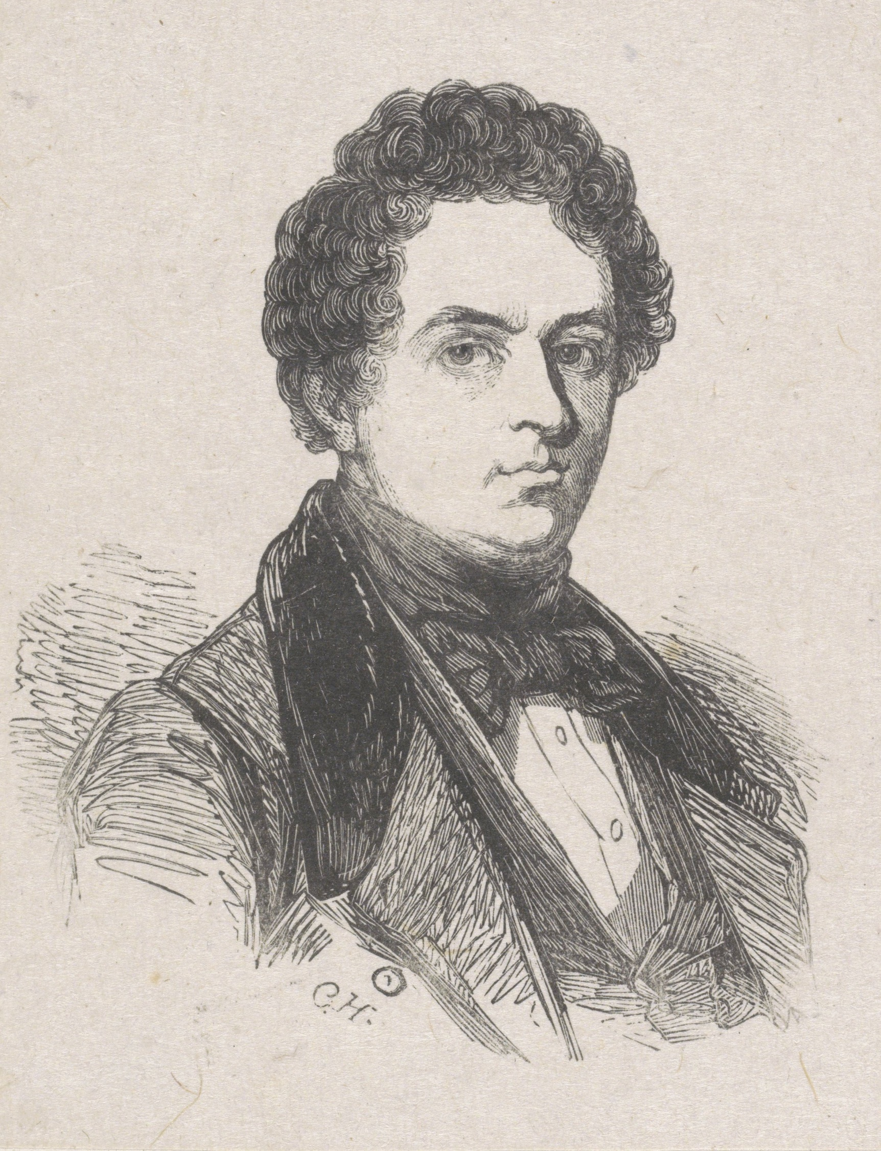 Portret van Hubertus van Hove